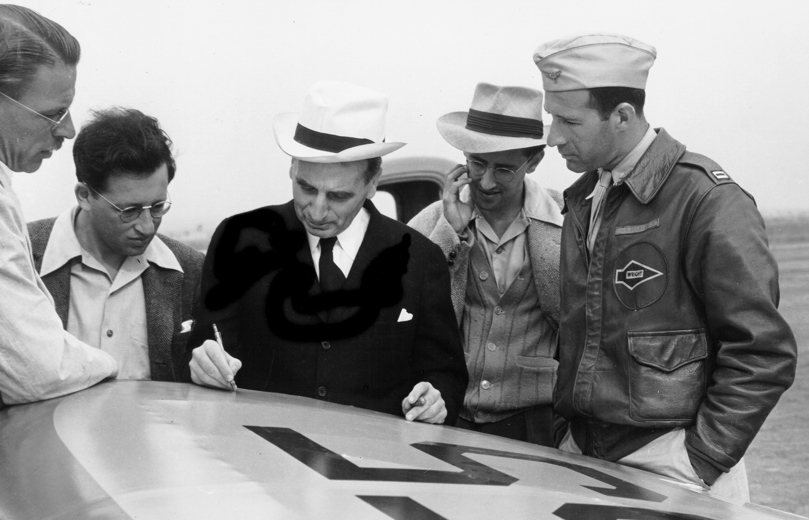 Dr. Theodore von Kármán (black coat) sketches out a plan on the wing of an airplane as his JATO engineering team looks on. From left to right: Dr. Clark B. Millikan, Dr. Martin Summerfield, Dr. Theodore von Kármán, Dr. Frank J. Malina and pilot, Capt. Homer Boushey. Captain Boushey would become the first American to pilot an airplane that used JATO (Jet Assisted Take-Off) solid propellant rockets.